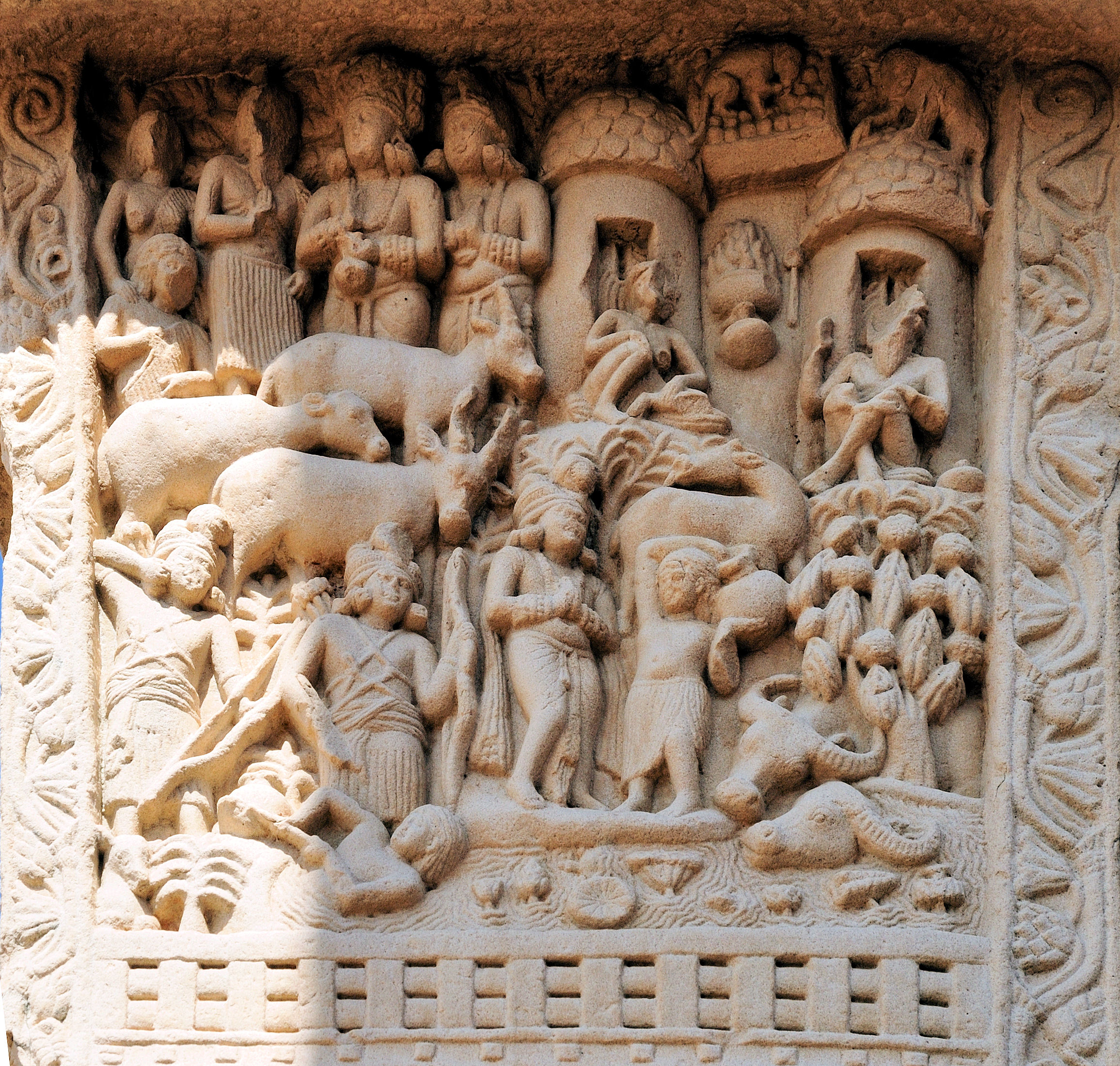 Syama Jataka Sanchi Stupa 1Western Gateway. Marshall [1]